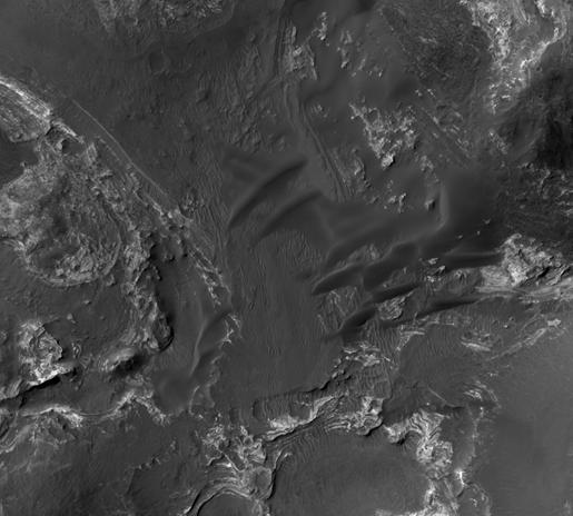 Orson Welles Crater, as seen by hirise. Location is 1 degree south latitude and 314 degrees east longitude. Image was taken by the Mars Reconnaissance Orbiter's HiRISE. The HiRISE camera was built by Ball Aerospace and Technology Corporation and is operated by the University of Arizona. Image courtesy NASA/JPL/University of Arizona.